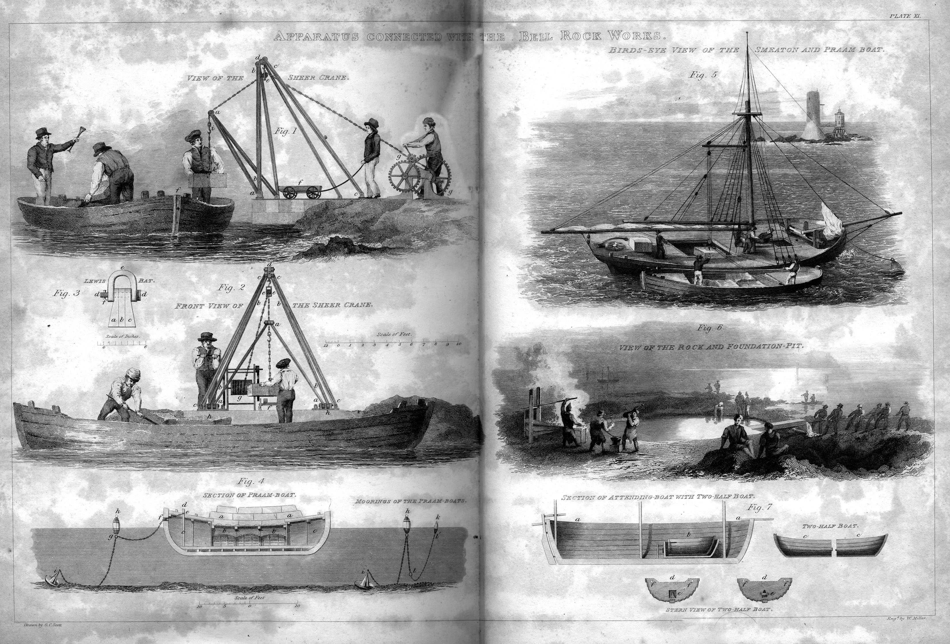 Apparatus connected with the Bell Rock Works, engraving by William Miller after G C Scott, published as Figure xi in An Account of the Bell Rock Lighthouse by Robert Stevenson, Edinburgh Printed for Archibald Constable and Co, Edinburgh; Hurst, Robinson and Co and Josiah Taylor, London, 1824